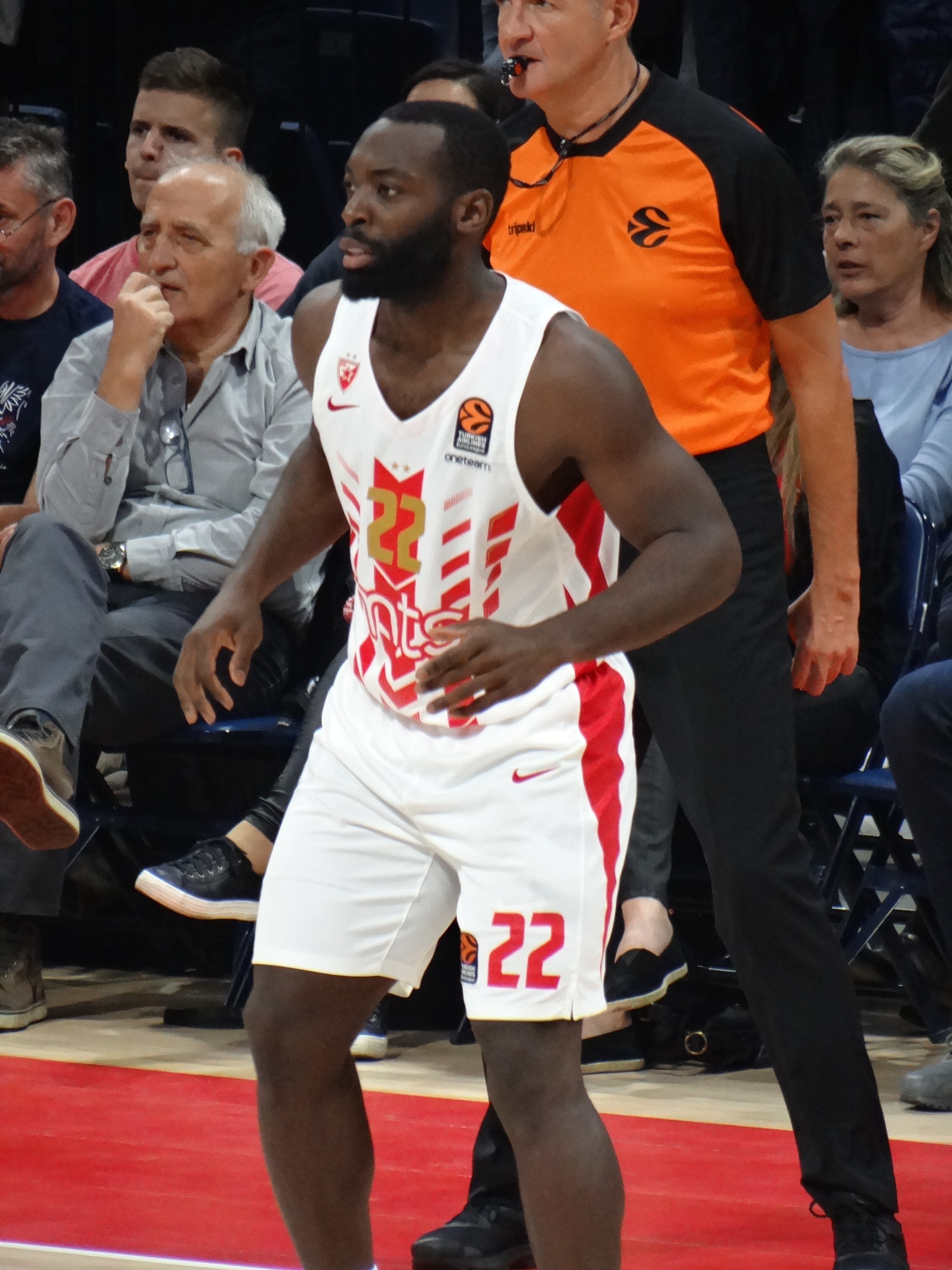 Charles Jenkins (basketball) 22 KK Crvena zvezda EuroLeague 20191010